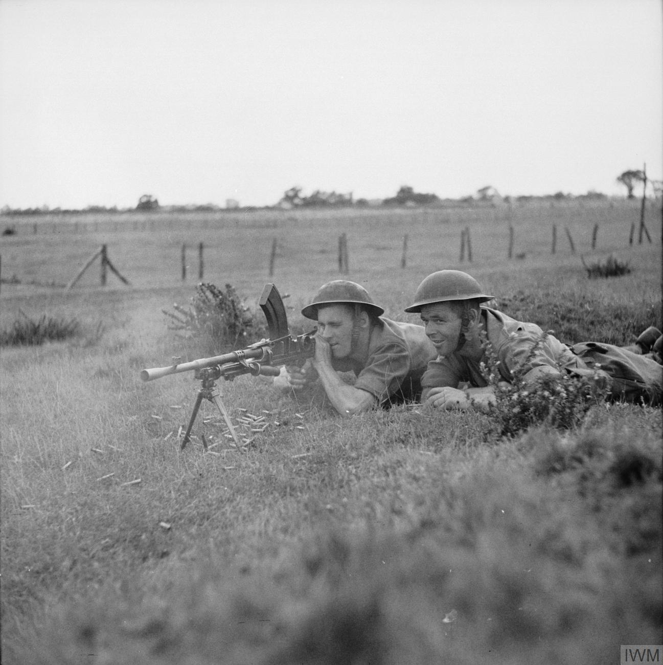 The British Army in the United Kingdom 1939-45 Bren gun team in action at 45th Division battle school, 14 August 1942.